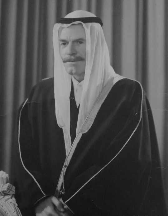 This photo depicts Izzat Ibrahim al-Douri (1942-) who was the former Iraqi Vice Chairman of the Revolutionary Command Council before the 2003 Invasion of Iraq.